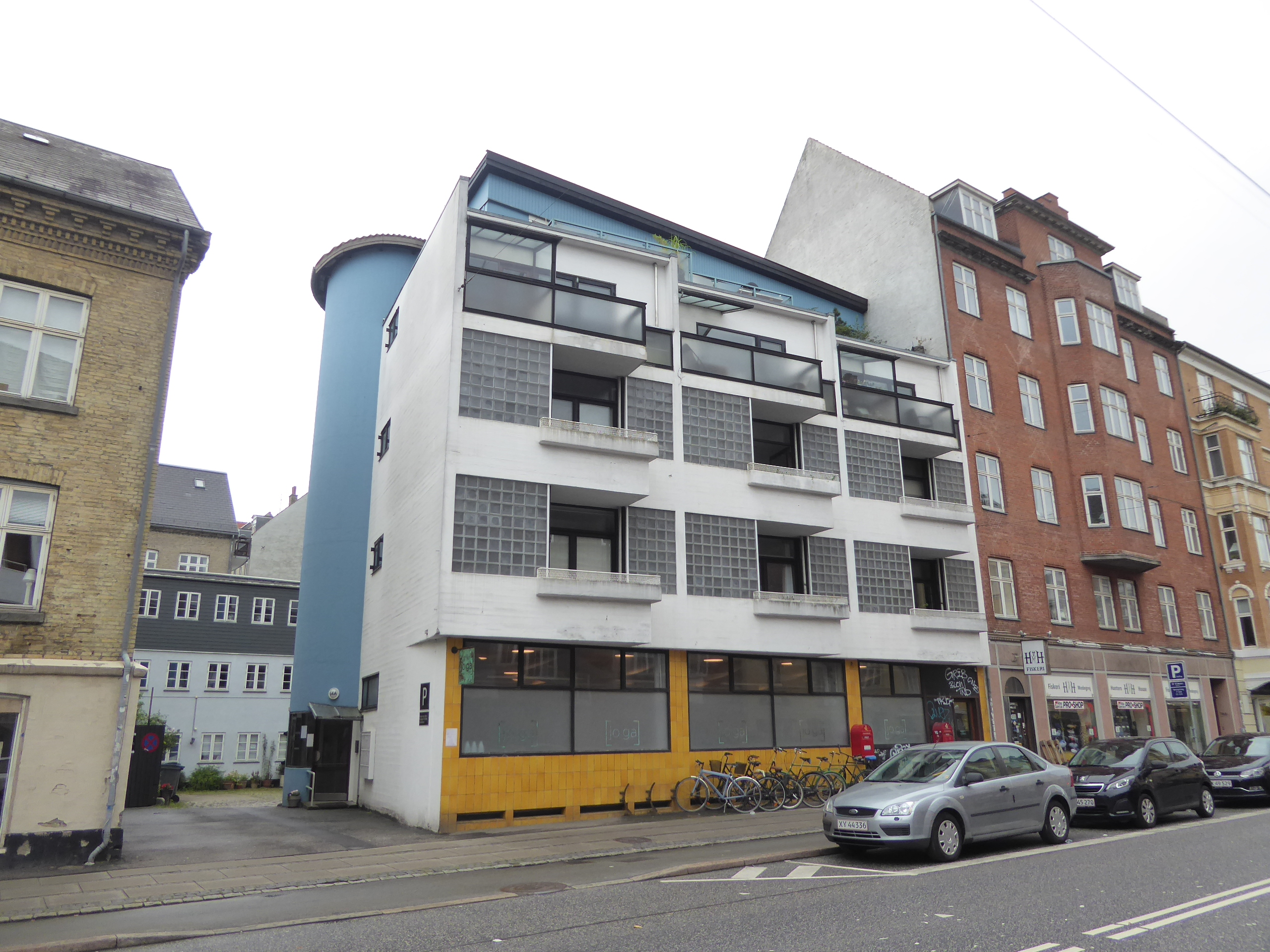 Apartment building at H.C. Ørsteds Vej in Frederiksberg in Copenhagen. There was a post office at the street until 2016.